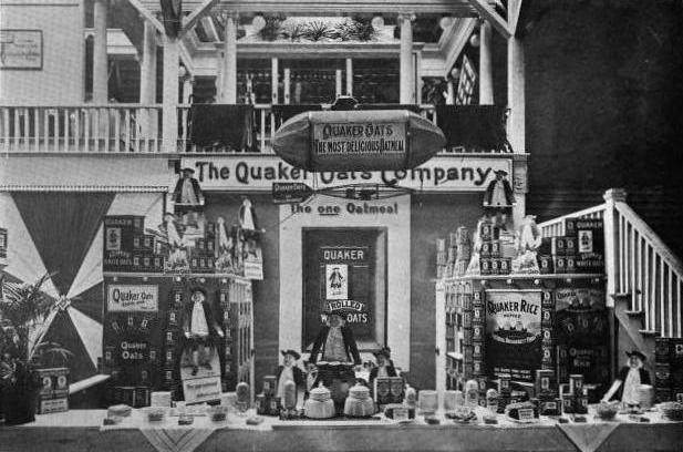 Quaker Oats Company exhibit at the National Conservation Exposition, held in Knoxville, Tennessee, USA, in 1913.